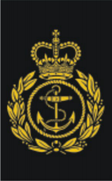 Shoulder rate badge worn by Royal Navy ratings holding the rank of Chief Petty Officer.